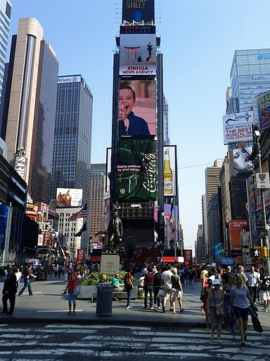 Hustle and Bustle in NYC